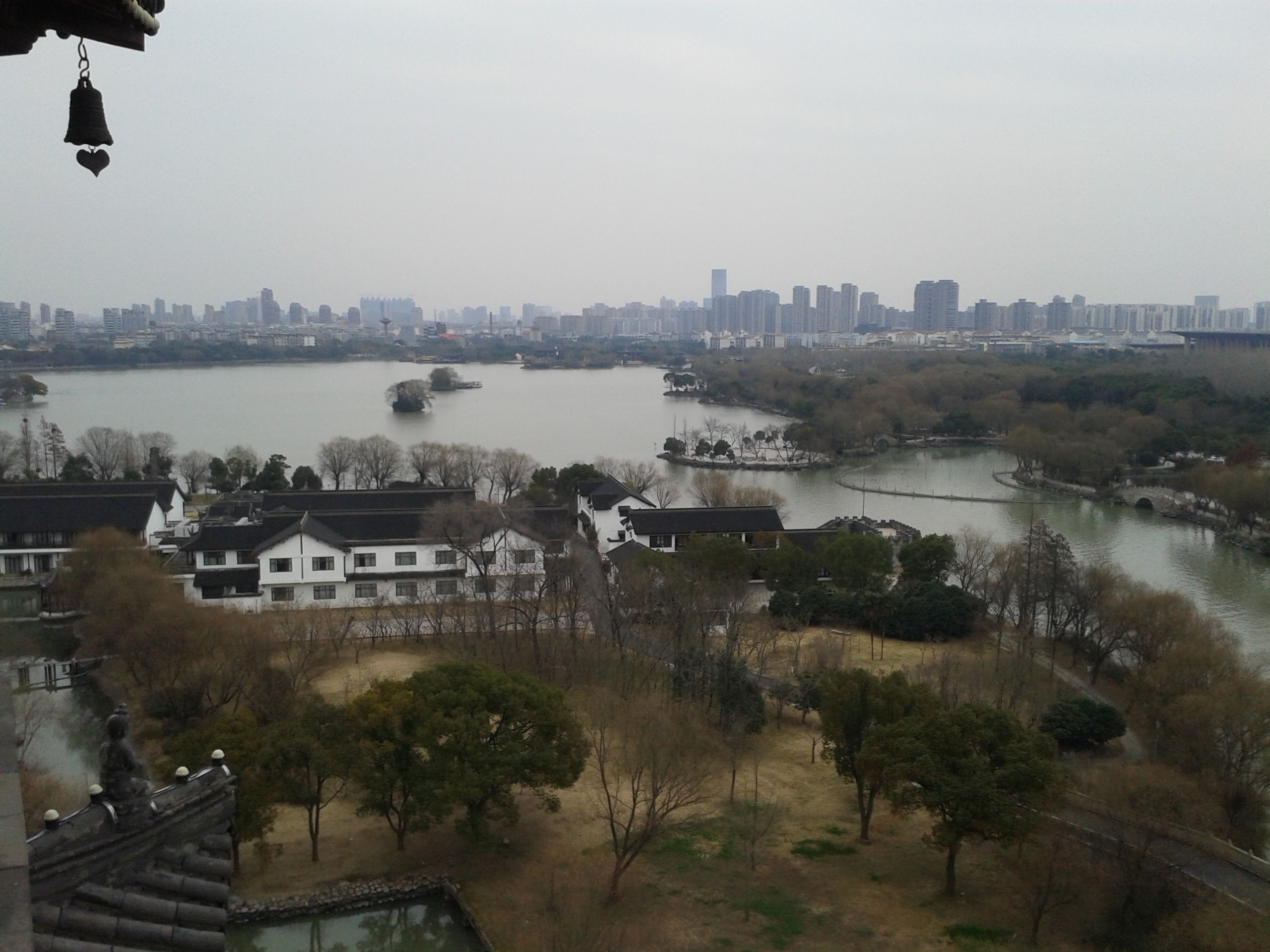 嘉兴南湖全景